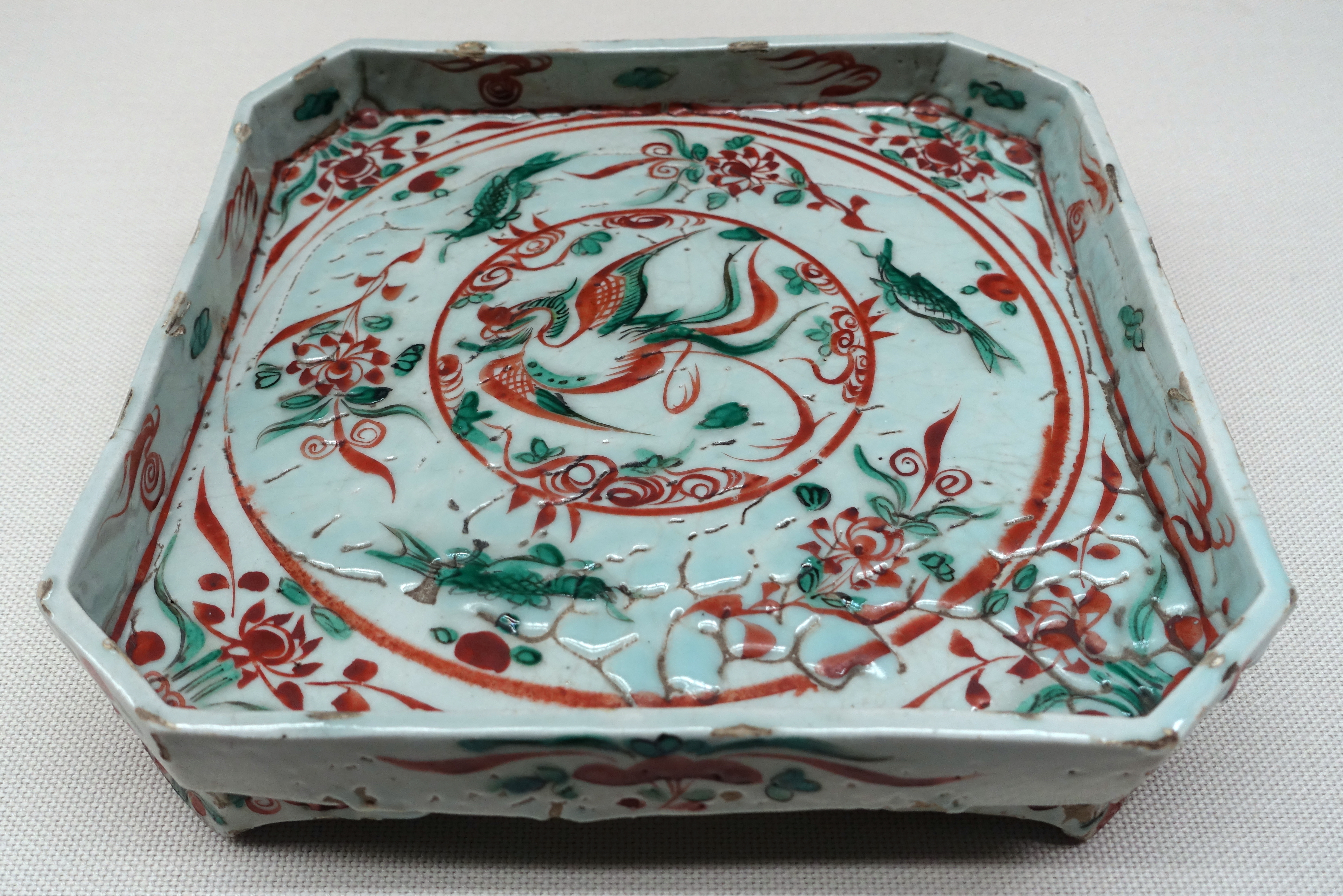 Exhibit in the Ishikawa Prefectural Museum of Traditional Arts and Crafts - Kanazawa, Japan.